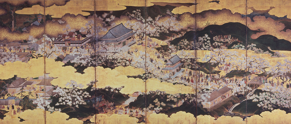 Cherry-blossom Viewing at Yoshino, Hosomi Museum, Kyoto, Kyoto, Japan